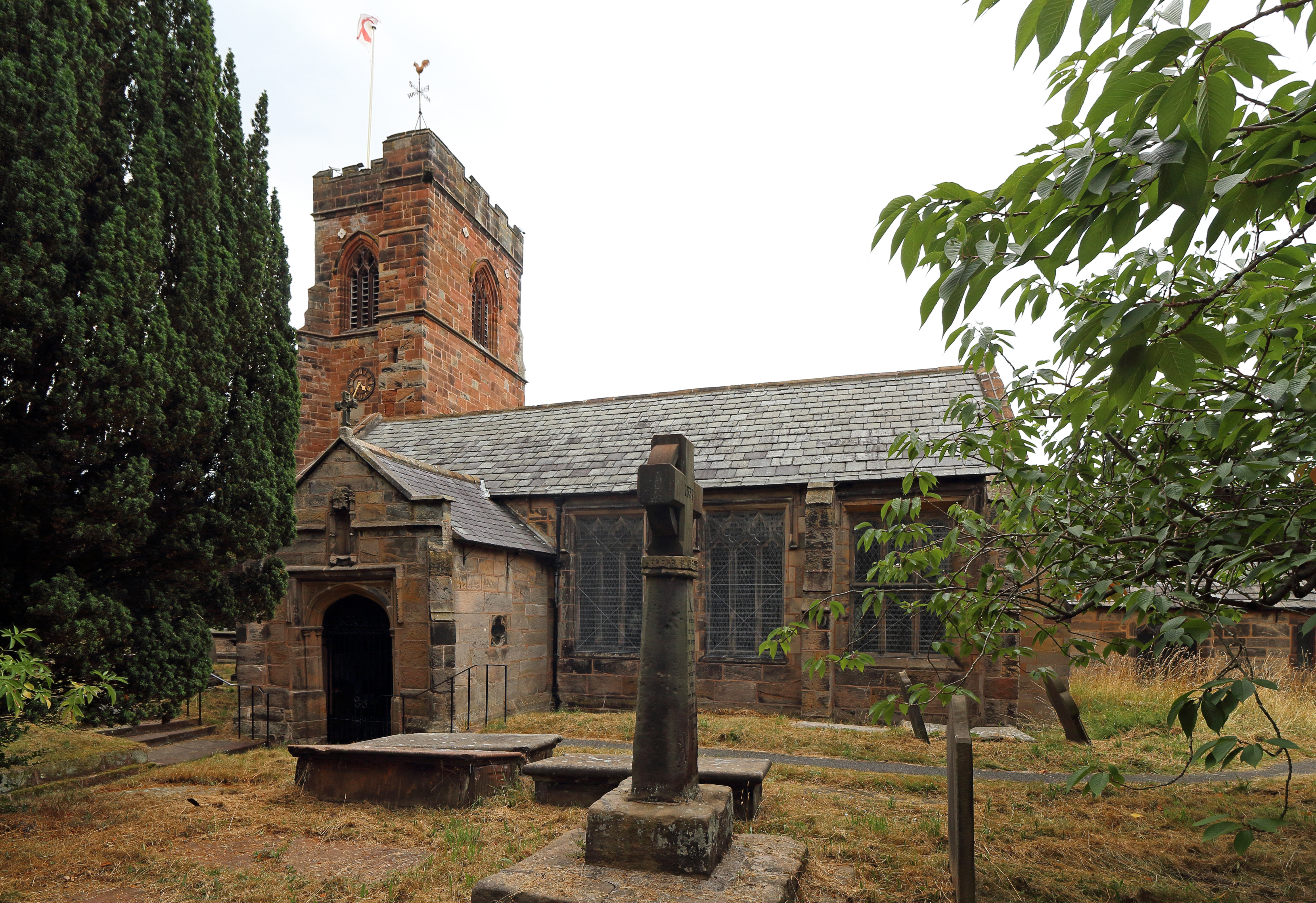 South side of Holy Cross, Woodchurch from the churchyard.